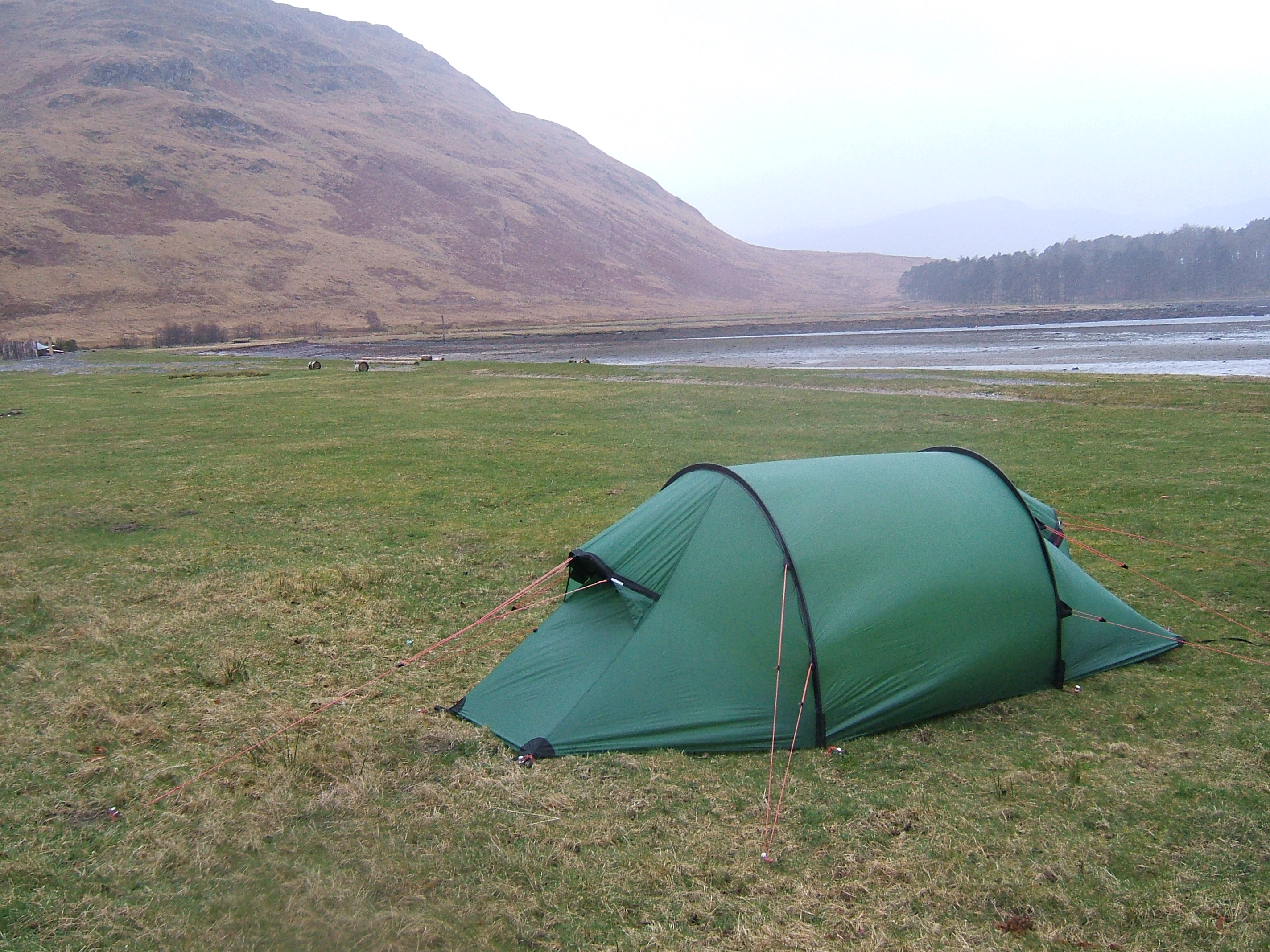 A Hilleberg Nammatj tunnel tent deployed on the beach in Inverie, Knoydart, Scotland. Author: LHOON